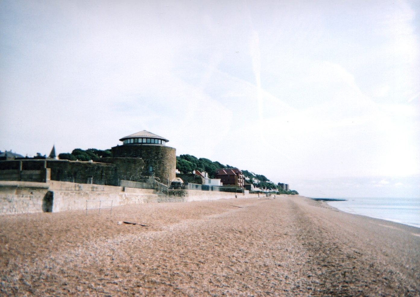 This is a photo of Sandgate Castle in Sandgate, Kent.